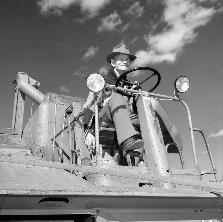 Senator James Gladstone, first Indian named to the Senate, on his combine on the Kainai (Blood) reserve north of Cardston, Alberta